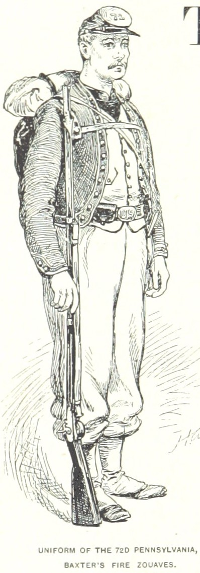 The uniform of the 72nd Pennsylvania Infantry, which fought in the American Civil War